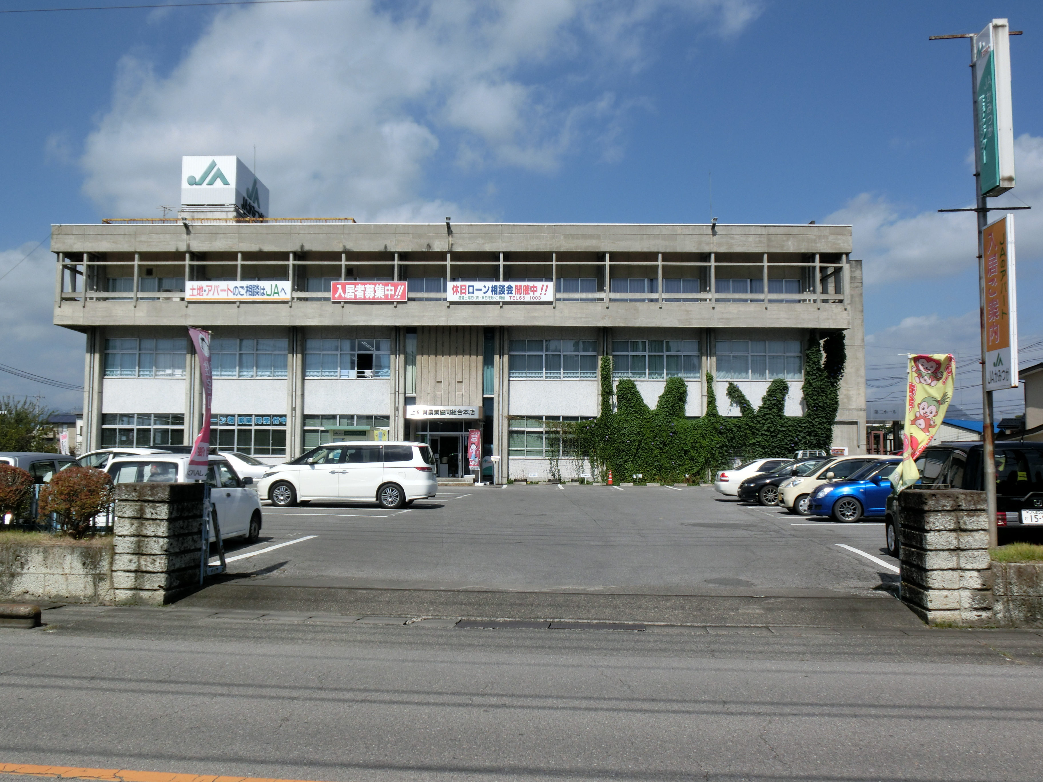 JA Kamitsuga Headquarters